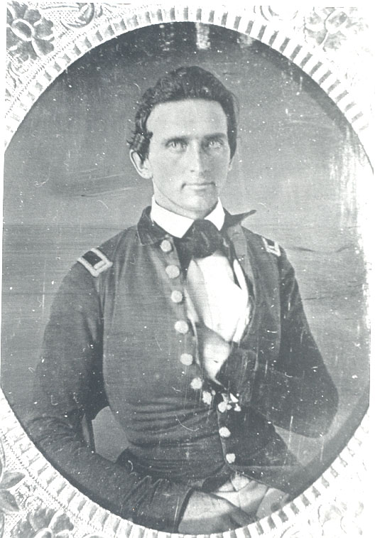 Stonewall Jackson as a young Lieutenant in the United States Army during the Mexican War